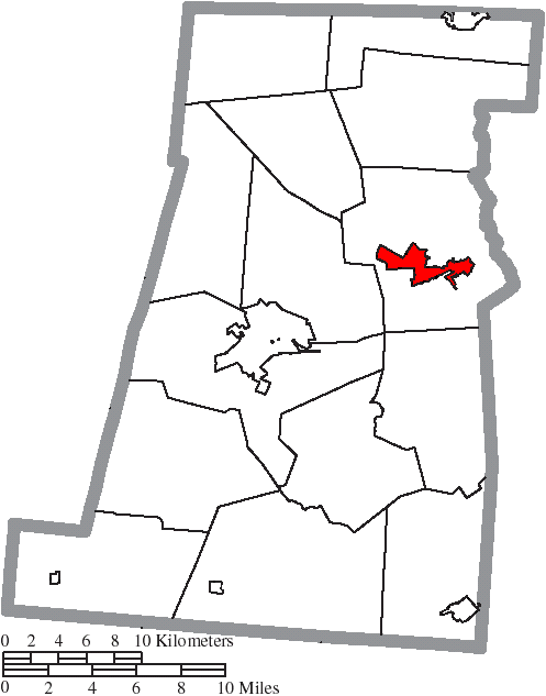 Map of the municipal and township boundaries of Madison County, Ohio, United States, as of the 2000 census, with the location of the village of West Jefferson highlighted. Township borders are shown only in unincorporated areas in order to differentiate incorporated and unincorporated areas more clearly.